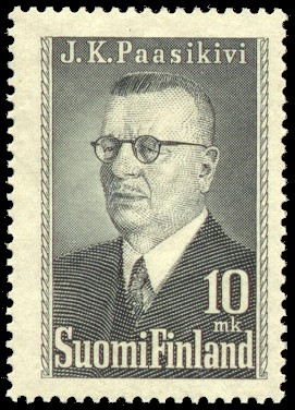 Postage stamp depicting President of Finland, J. K. Paasikivi